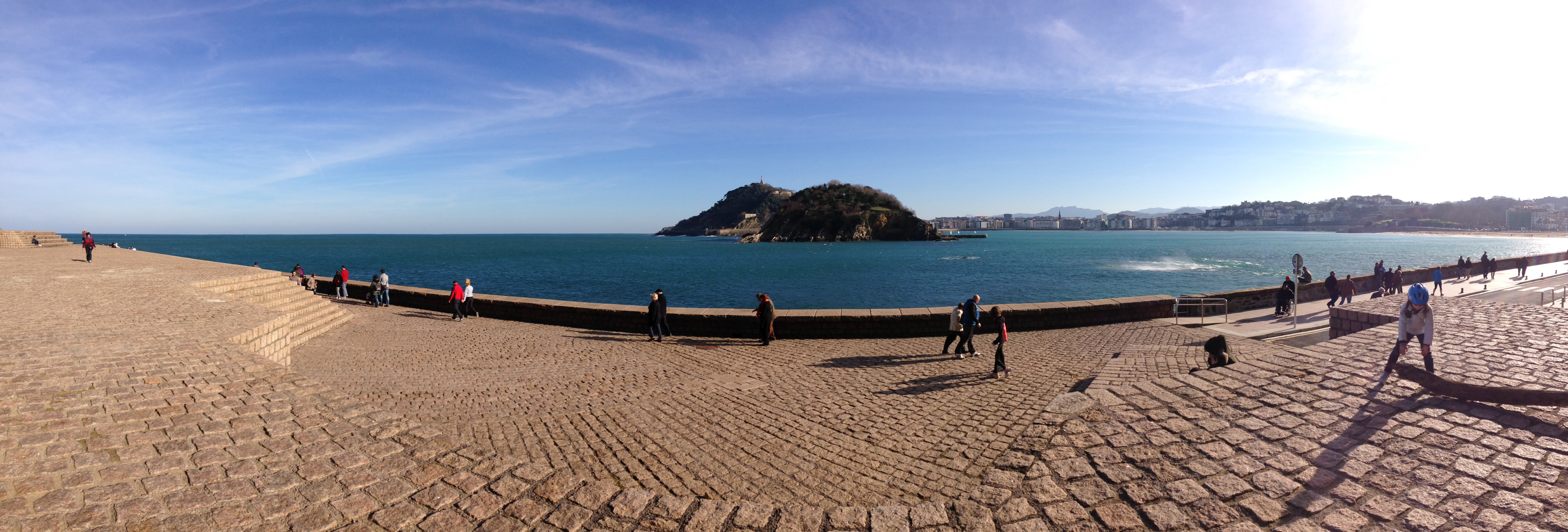 View of Haizearen Orrazia towards Santa Klara island